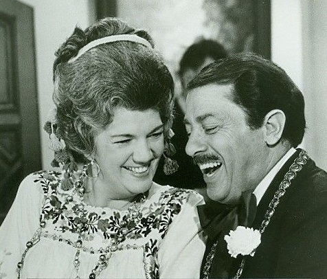 press photo of Carmen Zapata and Vito Scotti in Love American Style in 1973